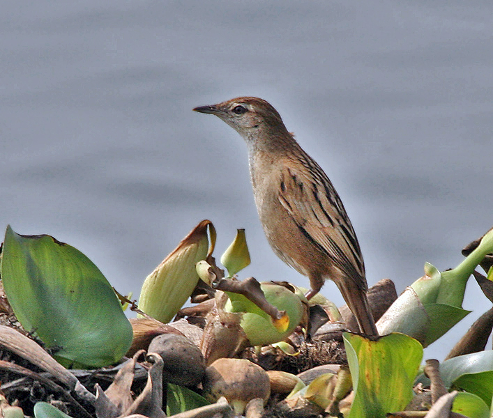 Striated Grassbird ((Megalurus palustris)) in Kolkata, West Bengal, India.